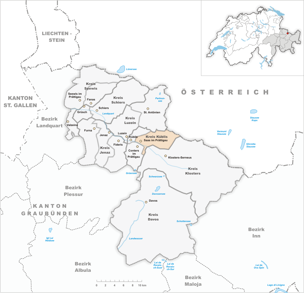 Municipality Saas im Prättigau